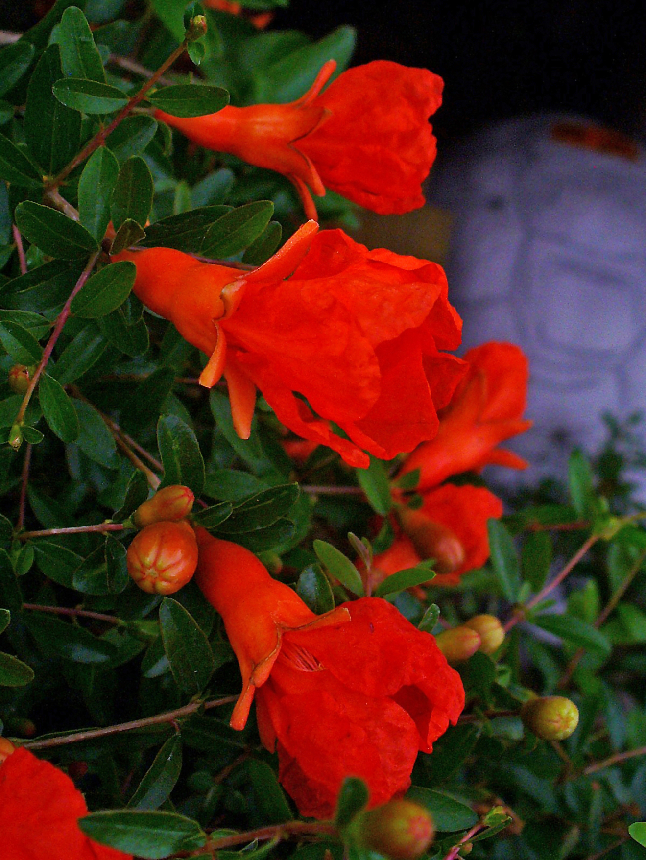 Punica granatum, Lythraceae, Pomegranate, flowers. Karlsruhe, Germany.